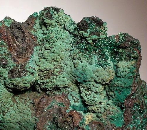 Pseudomalachite Locality: Mednorudyanskoye Cu Deposit, Nizhnii Tagil, Ekaterinburgskaya (Sverdlovskaya) Oblast', Middle Urals, Urals Region, Russia (Locality at ) Size: 6.4 x 4.6 x 4.5 cm. An OLD-TIME and showy specimen of bubbly, botryoidal pseudomalachite on gossan matrix from a CLASSIC Russian locality - Nihzne Tagilsk, Urals Region. This material was originally named tagalite in 1846, but later determined to be pseudomalacite. Accompanied by an OLD American Museum of Natural History label. A historic and highly representative old-timer. Ex. George Elling Collection.